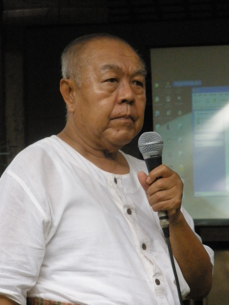 Sulak Siwaraksa gave a speech at Bangkokian Museum.